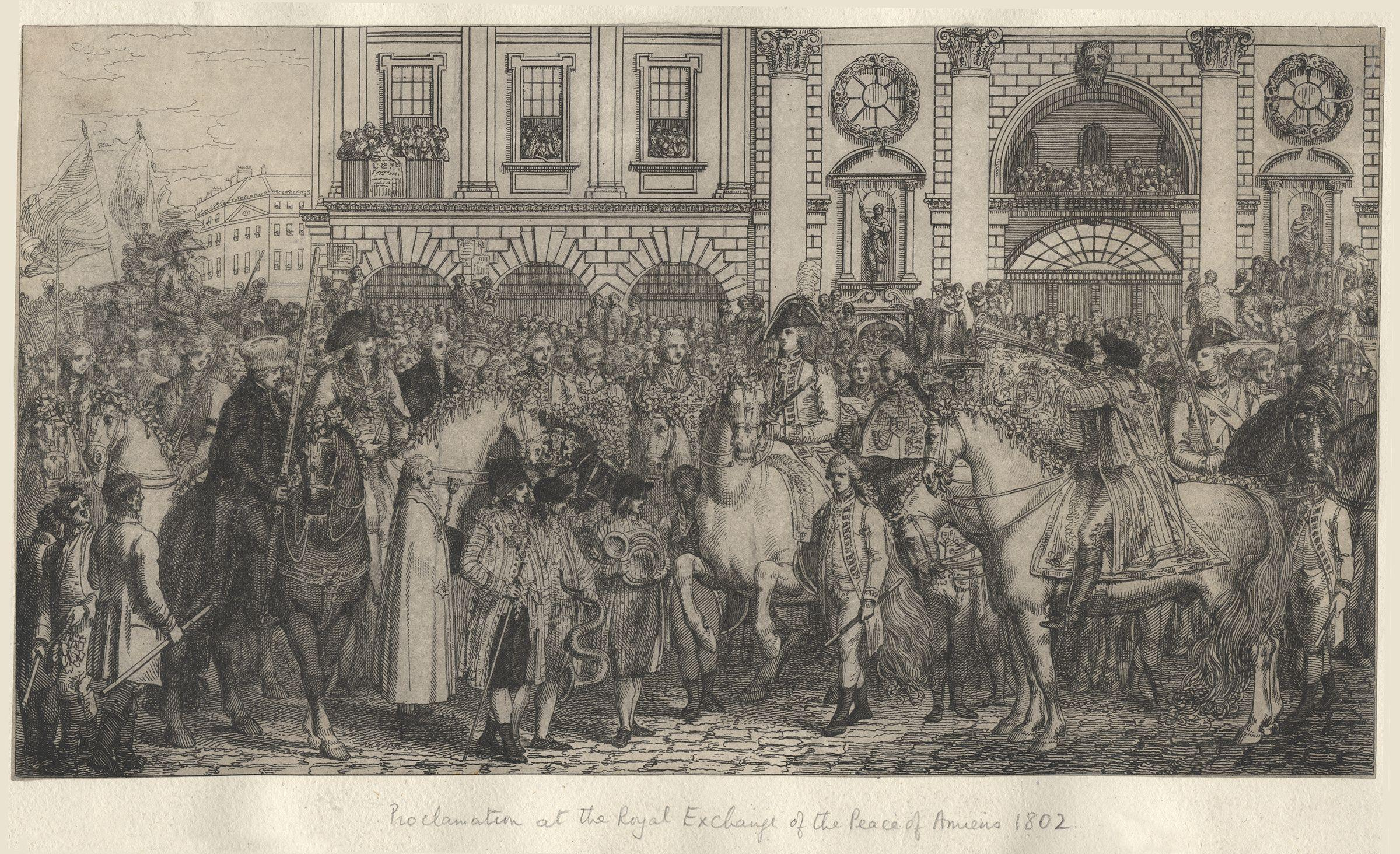 Proclamation at the Royal Exchange of the Peace of Amiens, 1802, by Peltro William Tomkins (died 1840), published 1802. All images in this batch have been confirmed as author died before 1939 according to the official death date listed by the NPG.